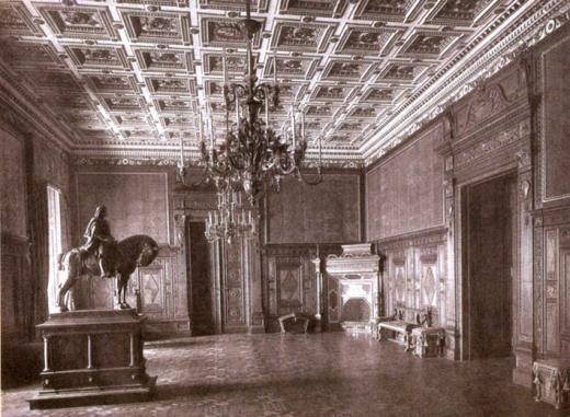 St Matthias's Room in the Royal Castle of Budapest.